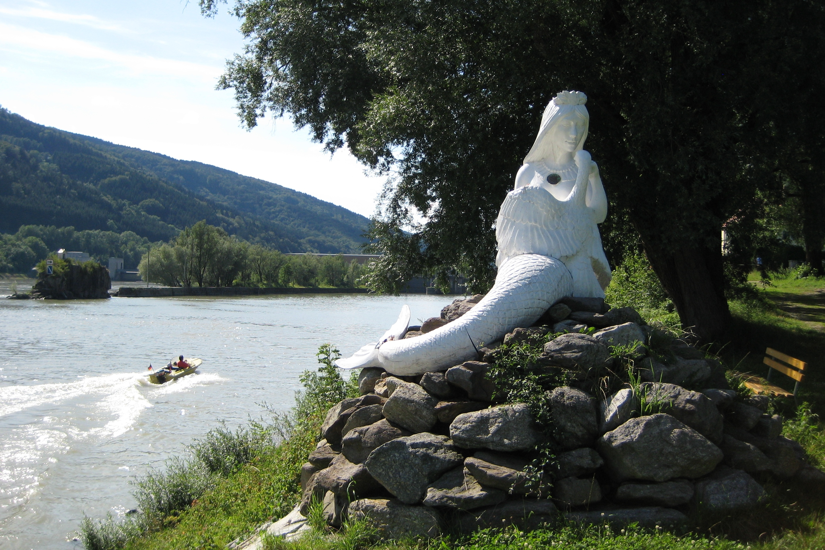 Nix Isa, Jochenstein on the Danube